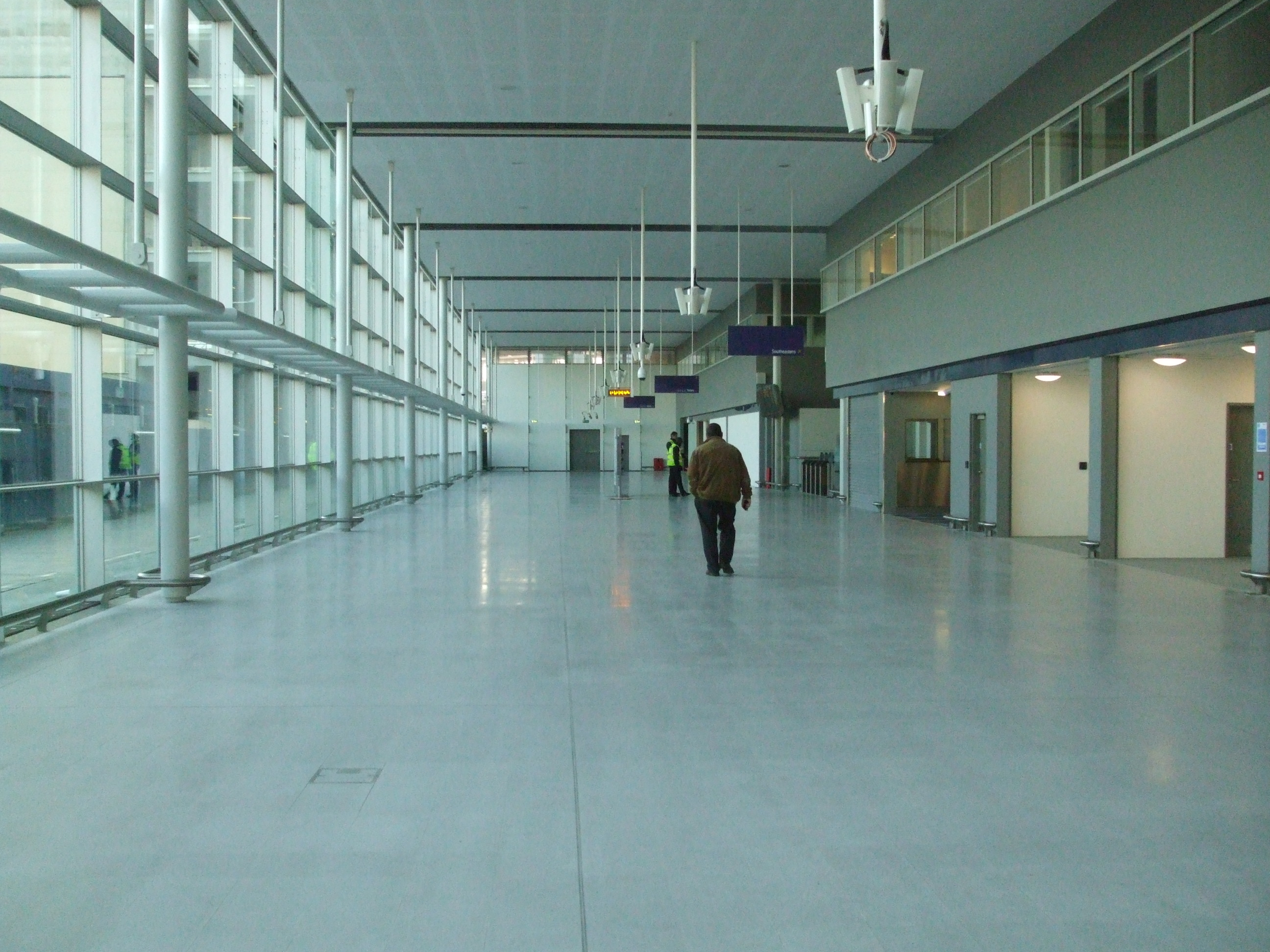 Stratford International station concourse (12—2009). A few days after opening for (initial) Southeastern High-Speed domestic services.